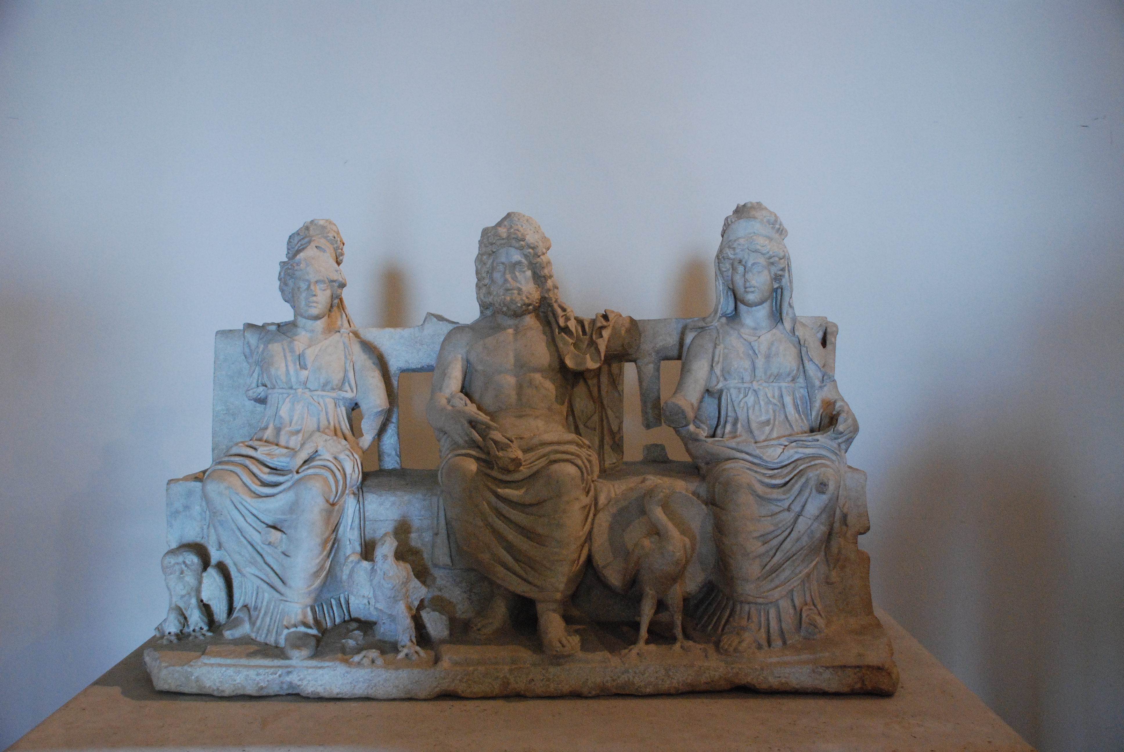 Sanctuary of Fortuna Primigenia and The National Archeological Museum Of Palestrina